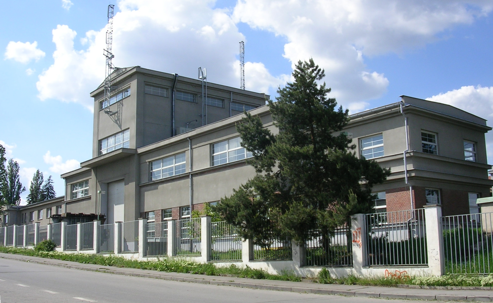 Michle, Prague, the Czech Republic.